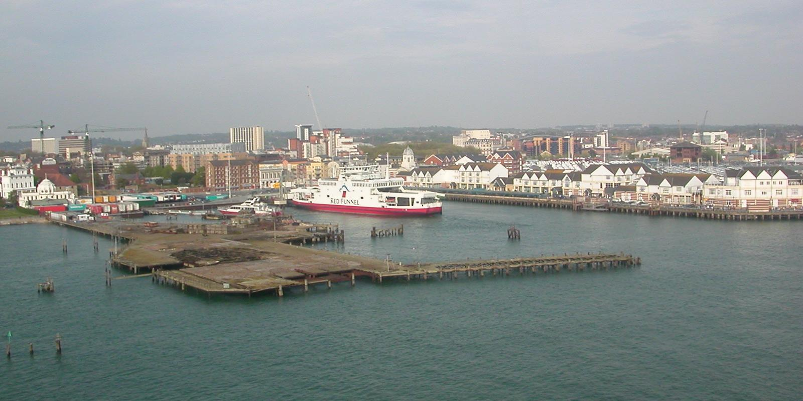 View (2) of Southampton docks from departing MV Aurora. Photographed on 22nd April 2007. View of Royal Pier, The Red Funnel Car ferry terminal and Town Quay